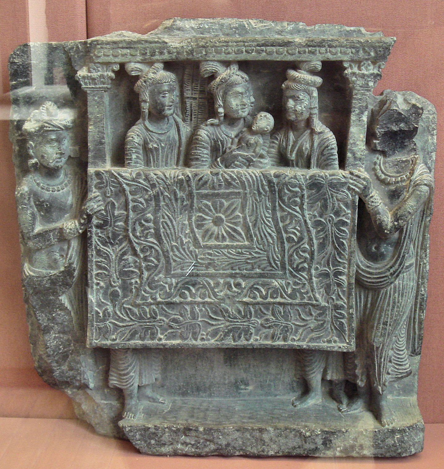 Queen Maya With Infant Buddha. Gandhara 2nd Century